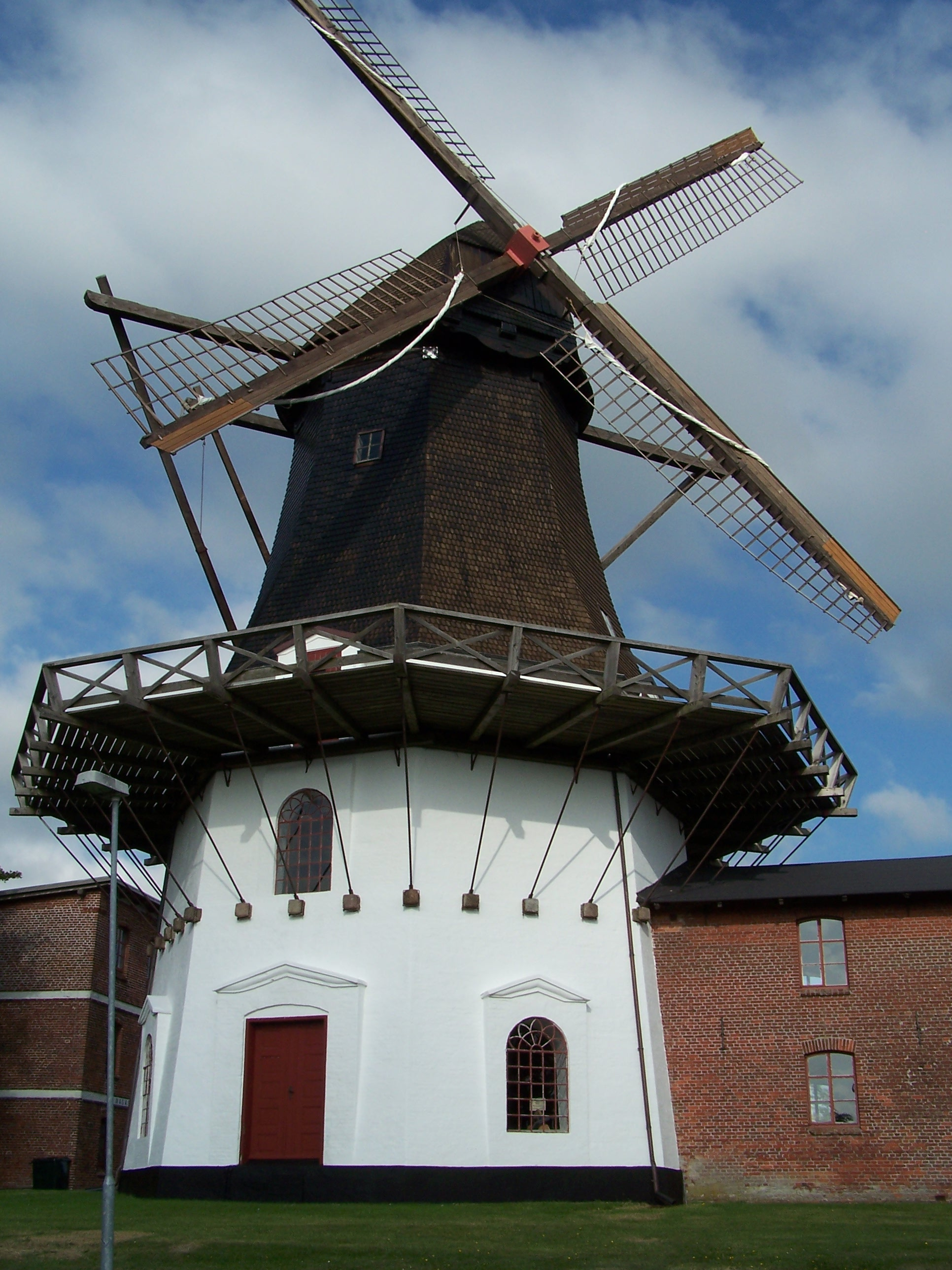 Højer Mølle (Højer windmill), Denmark.